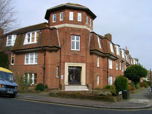 Standing on the corner of Somerhill Road and Nizells Avenue and opposite St Ann's Wells Gardens from which it takes its name. Its most famous resident was Lord Alfred Douglas, Oscar Wilde's 'Bosie' who lived here between 1935-44. The flats themselves were built in the early 1930s. This view looks east from Somerhill Road.